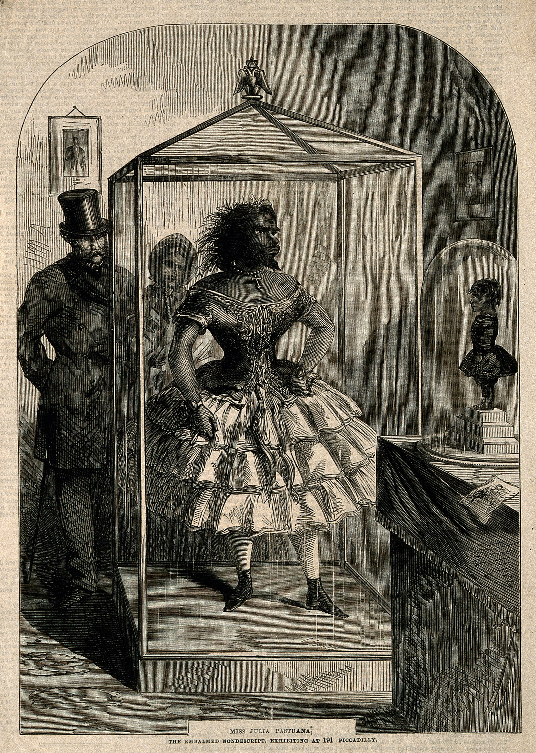 Julia Pastrana, a bearded lady, embalmed. Wood engraving, 1862. Iconographic Collections Keywords: portrait prints; Julia Pastrana; Hypertrichosis; wood engravings; pastrana, julia, d. 1860